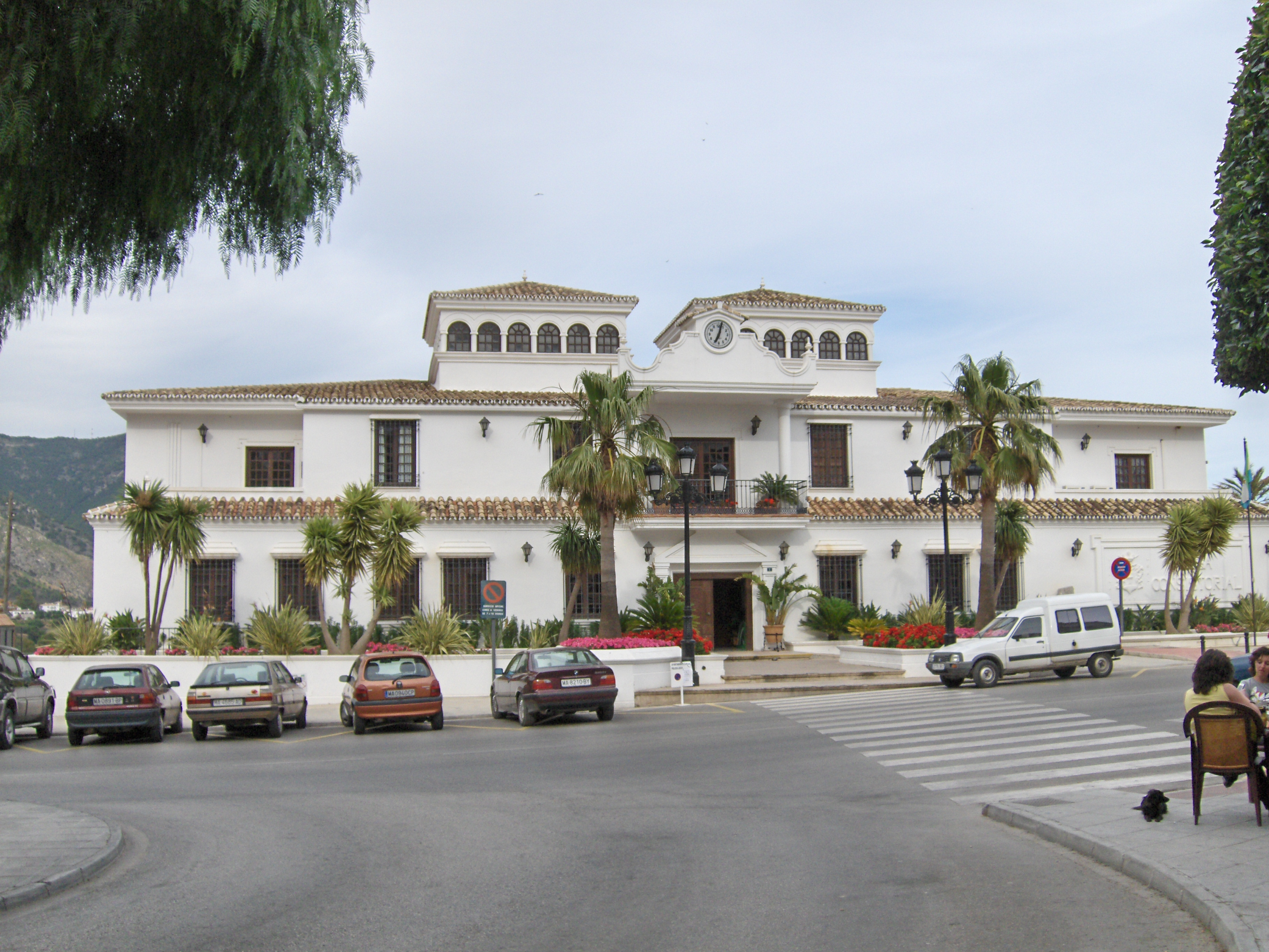 Mijas Town Hall, Málaga, Spain. Architect: Antonio Herrezuelo. Built in 1987.